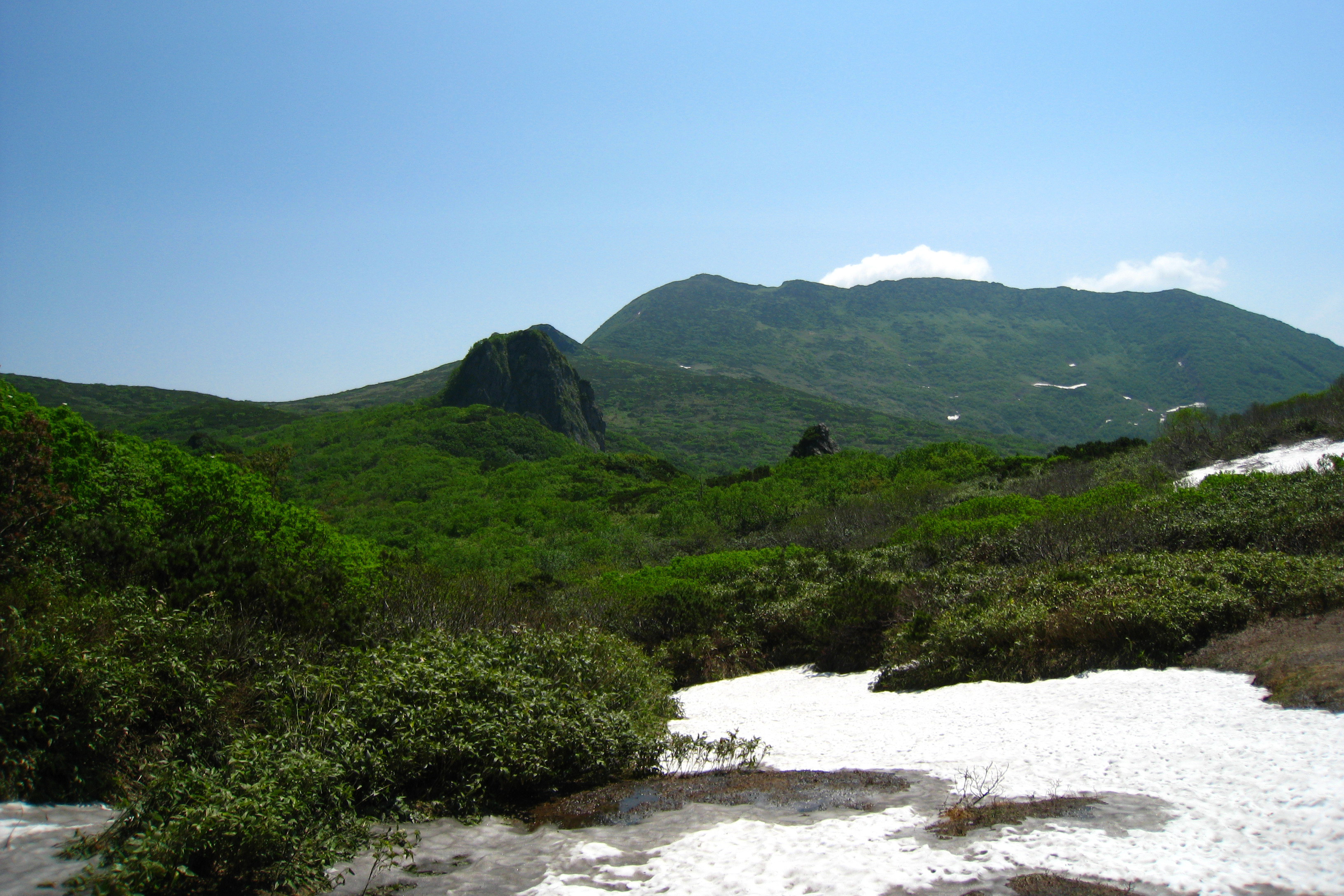 A view of Mount Yubari's summit with Tsurigane Rock. Looking the NW.